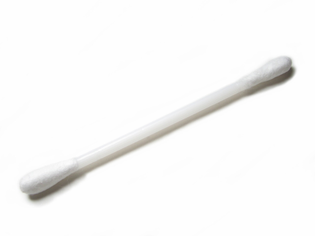 Cotton swab (Menbo)